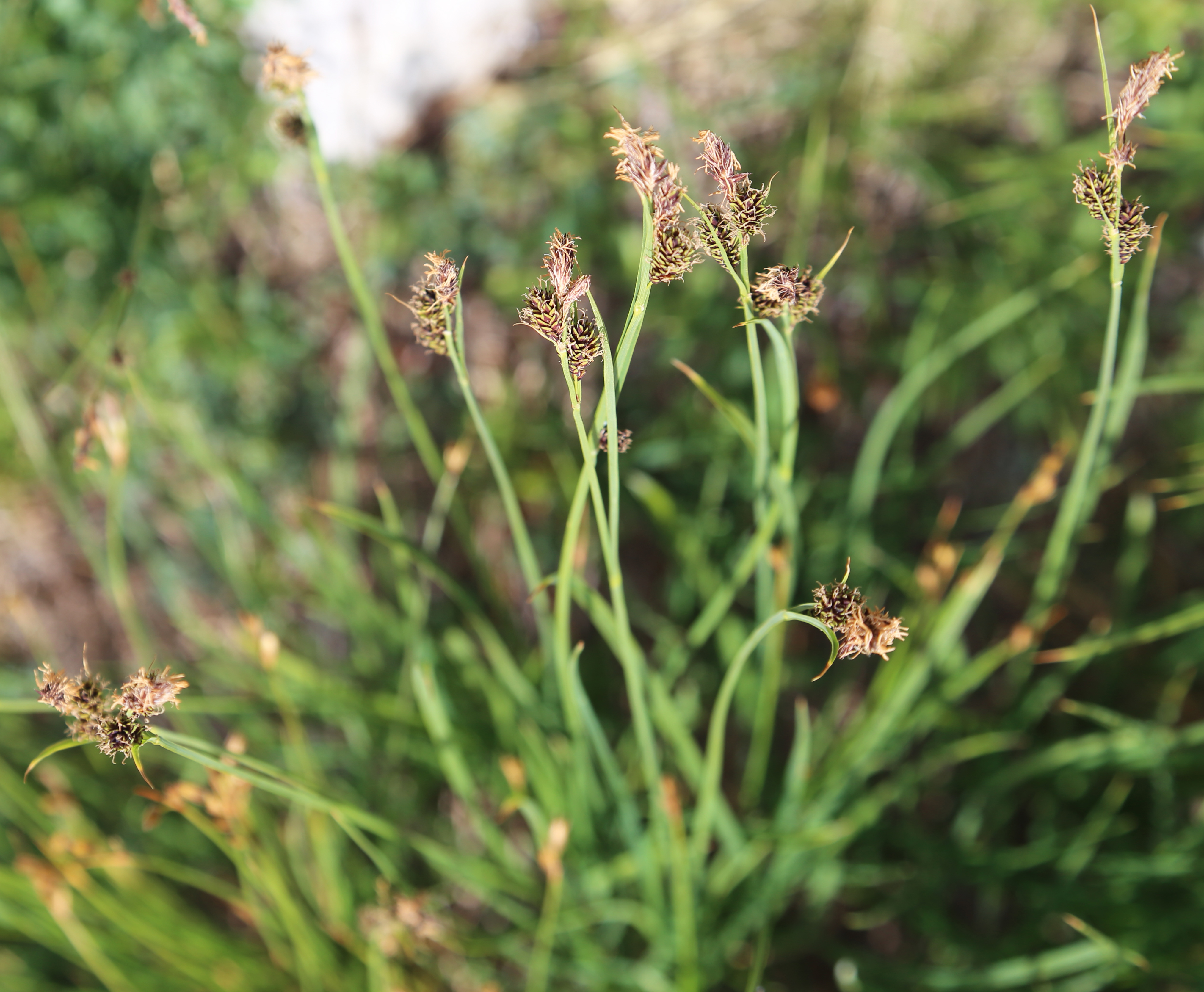 Showy sedge (Carex spectabilis), closeup of bloom. On streambank below Gem Lakes, Little Lakes Valley, John Muir Wilderness, Sierra Nevada USA.